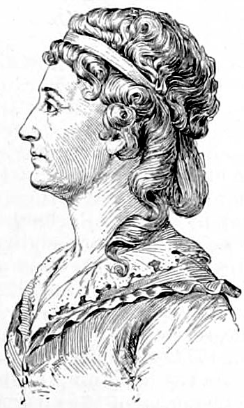 Portrait of United States philanthropist Elizabeth Ann Seton